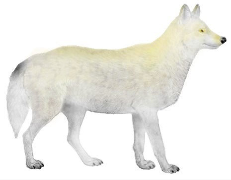 Baffin Island wolf illustration, modified from modified from Himalayan wolf from File:Dogs, jackals, wolves, and foxes (Plate III).jpg